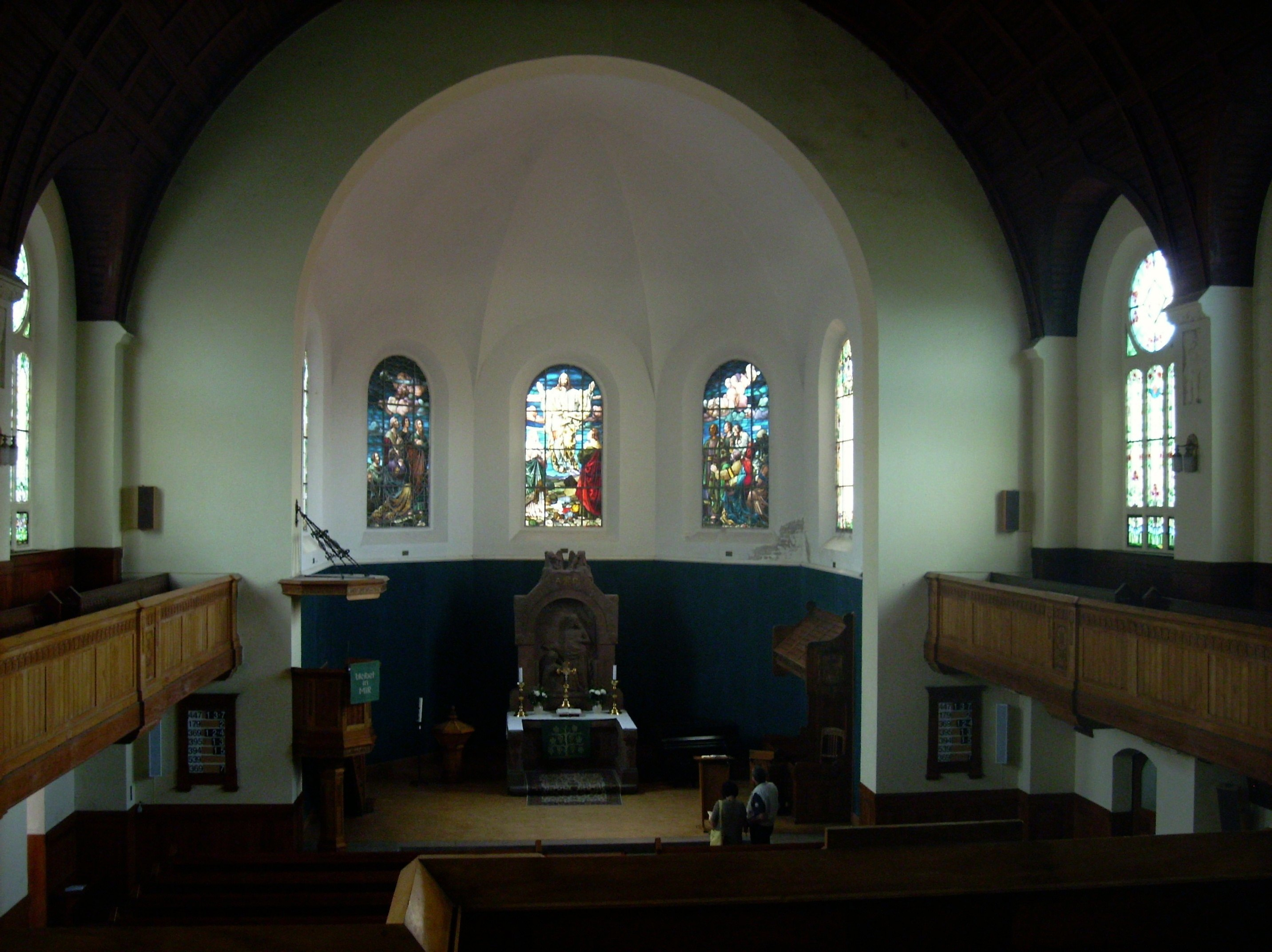 Interior of Duchess Agnes Memorial Church in Altenburg (Thuringia)